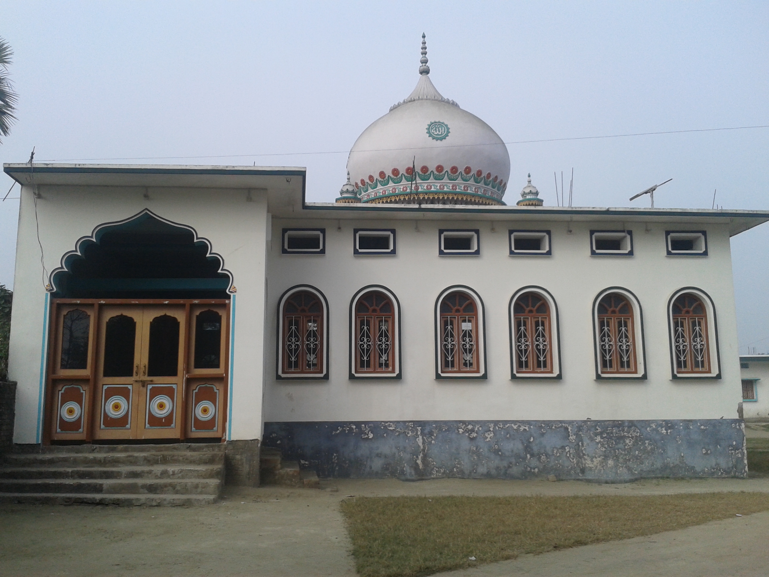 Front view of Hussaini Mazaar, Hussaini, Bihar, India. PIN 845423